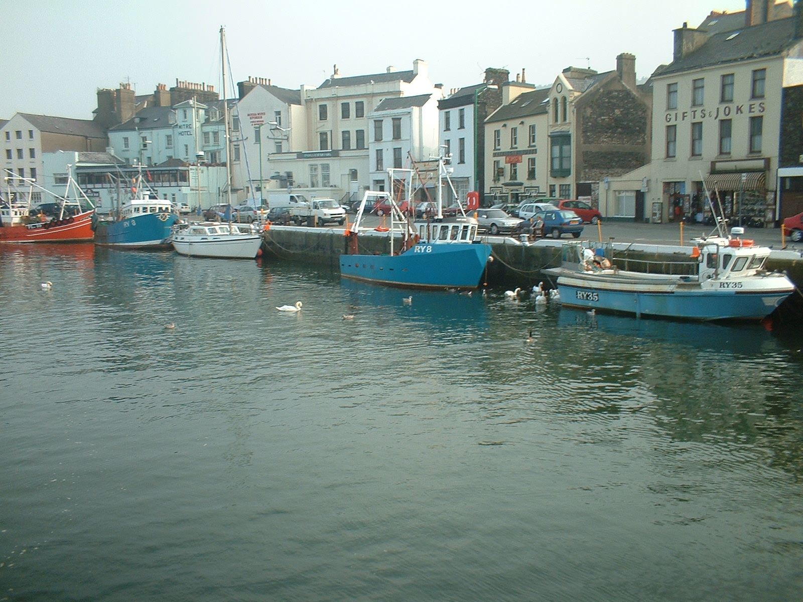 The harbour in the city Ramsey in Isle of Man